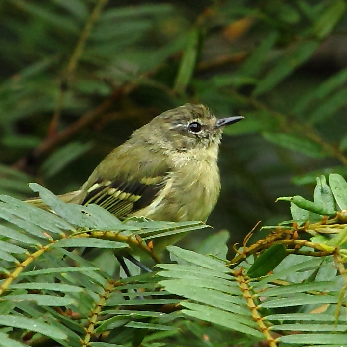 Mottle-cheeked Tyrannulet at São Luiz do Paraitinga - SP - Brazil